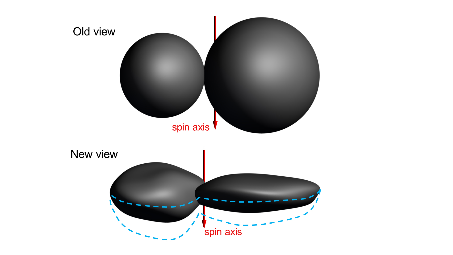 Computer generated model of the shape of (486958) 2014 MU69. "Snowman" shape top, revised model "pancake and walnut" bottom. Original Description: "The bottom view is the team’s current best shape model for Ultima Thule, but still carries some uncertainty as an entire region was essentially hidden from view."